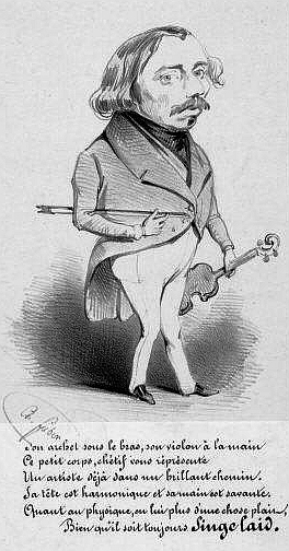 Belgian violinist and composer Jean-Baptiste Singelée (1812-1875).